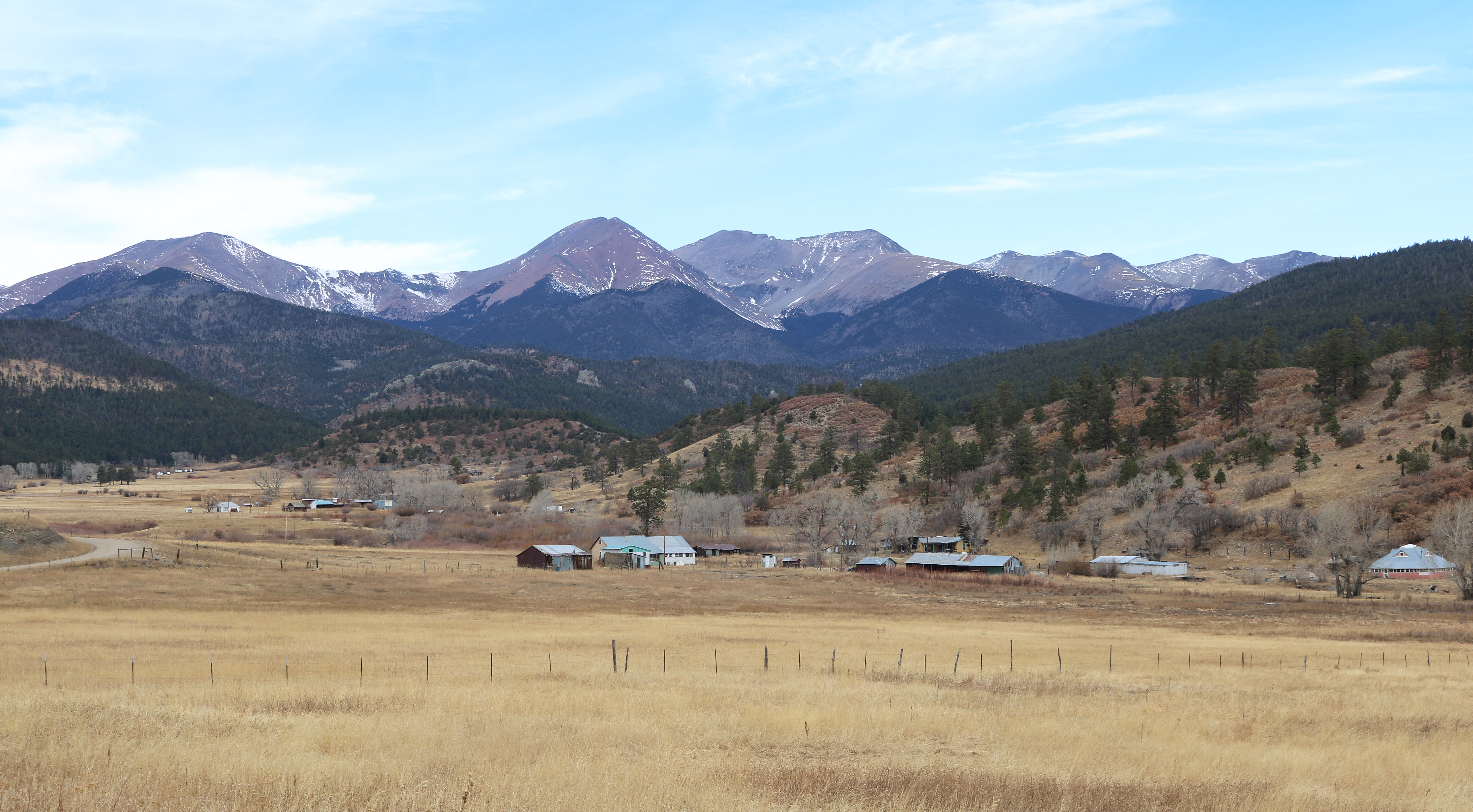 A view of part of the area around Torres, Colorado in Las Animas County. The view is to the west from a point on Las Animas County Road 12, looking towards the Culebra Range. The land in the picture was once within the Maxwell Land Grant.